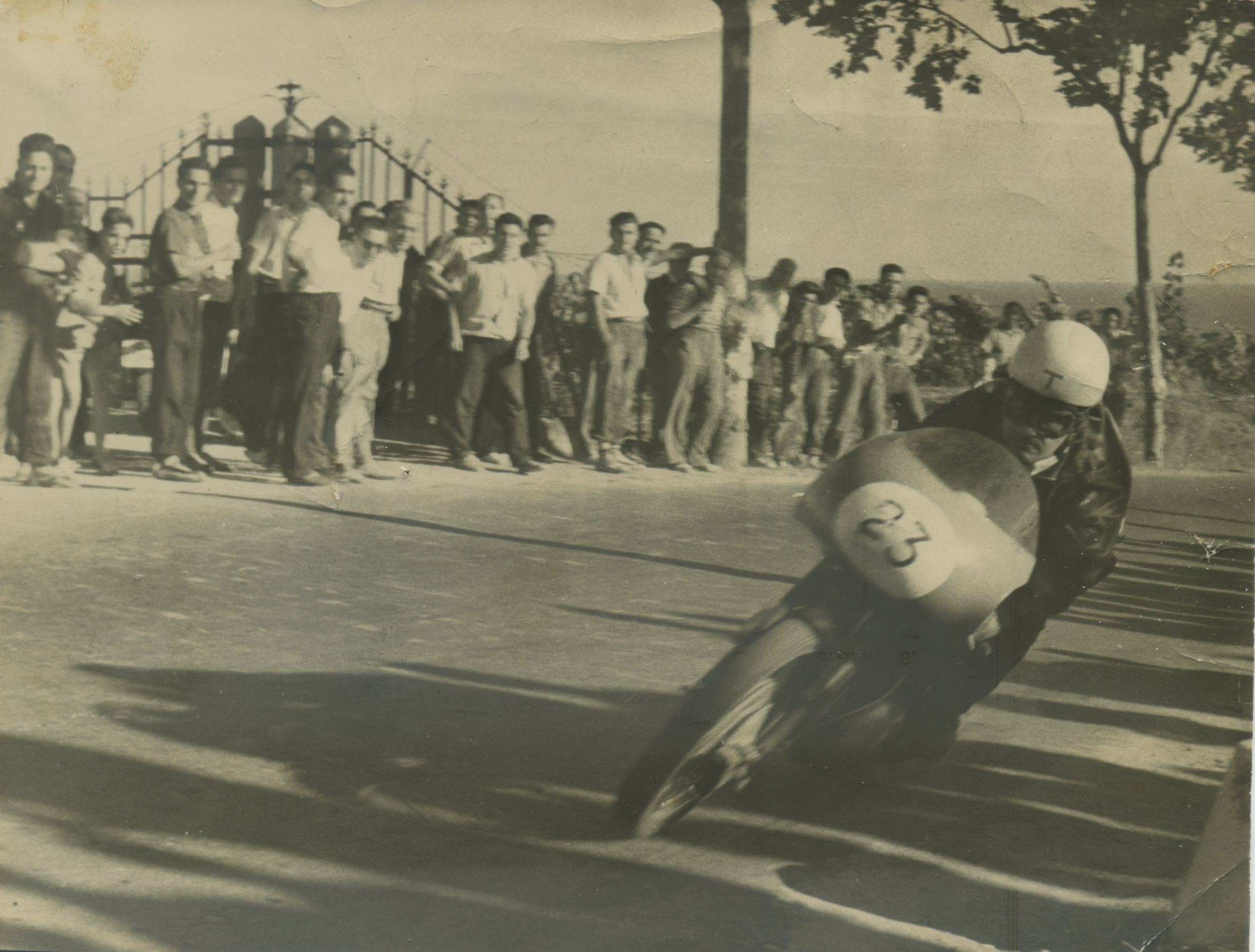 Paco Tombas on his Derbi 350 at the 1957 Prueba en Cuesta a San Ginés